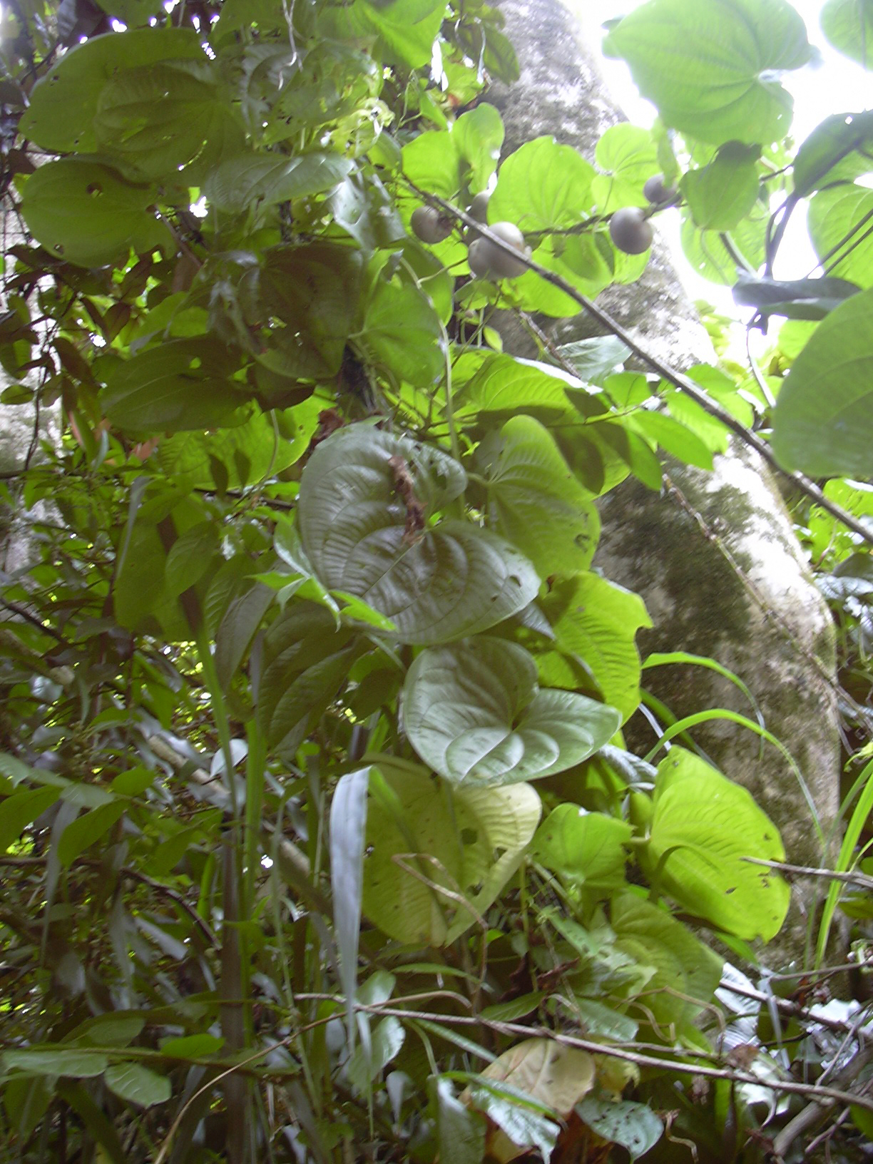 Dioscorea bulbifera (habit). Location: Maui, Hana Hwy